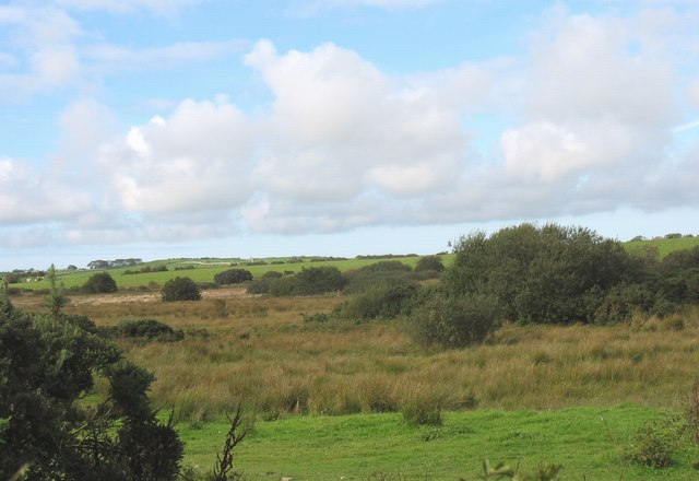 Cors Bodwrog This is a Site of Special Scientific Interest.The SSSI designation describes it as "a large valley mire which once included a 16ha lake, Llyn Hendref, until an agricultural drainage scheme in 1970 pulled the plug on it and left a degraded wetland and a 4ha lake, and limited agricultural benefit. Interest remains however, especially in the former peat cuttings (abandoned after WWII) and there remains the prospect of restoration of the lake and wetland. There is no public access"